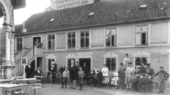 The Lorry entertainment venue in the Frederiksberg district of Copenhagen, Denmark